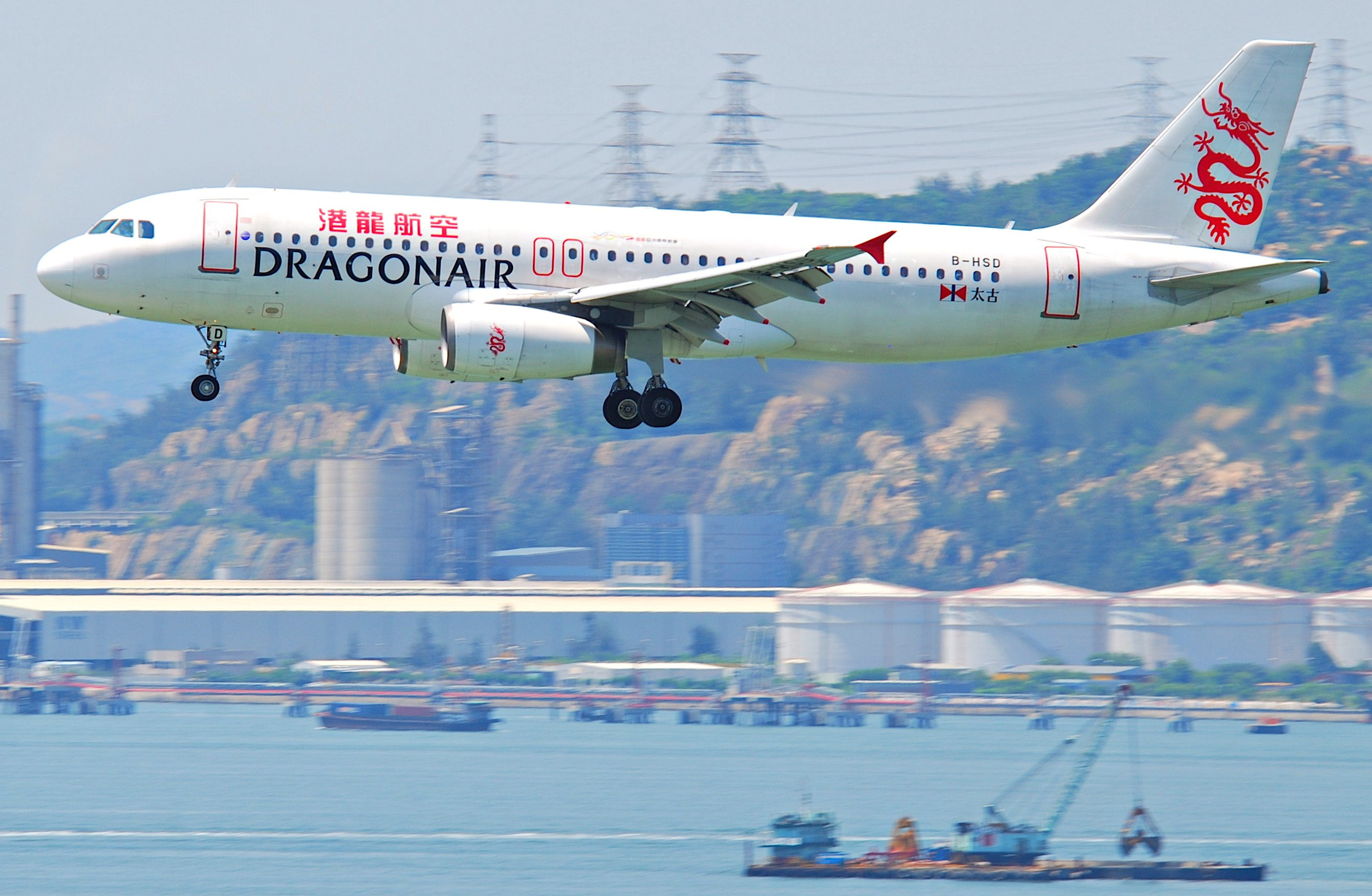 First flight: December 11, 1997...(c/n 756)